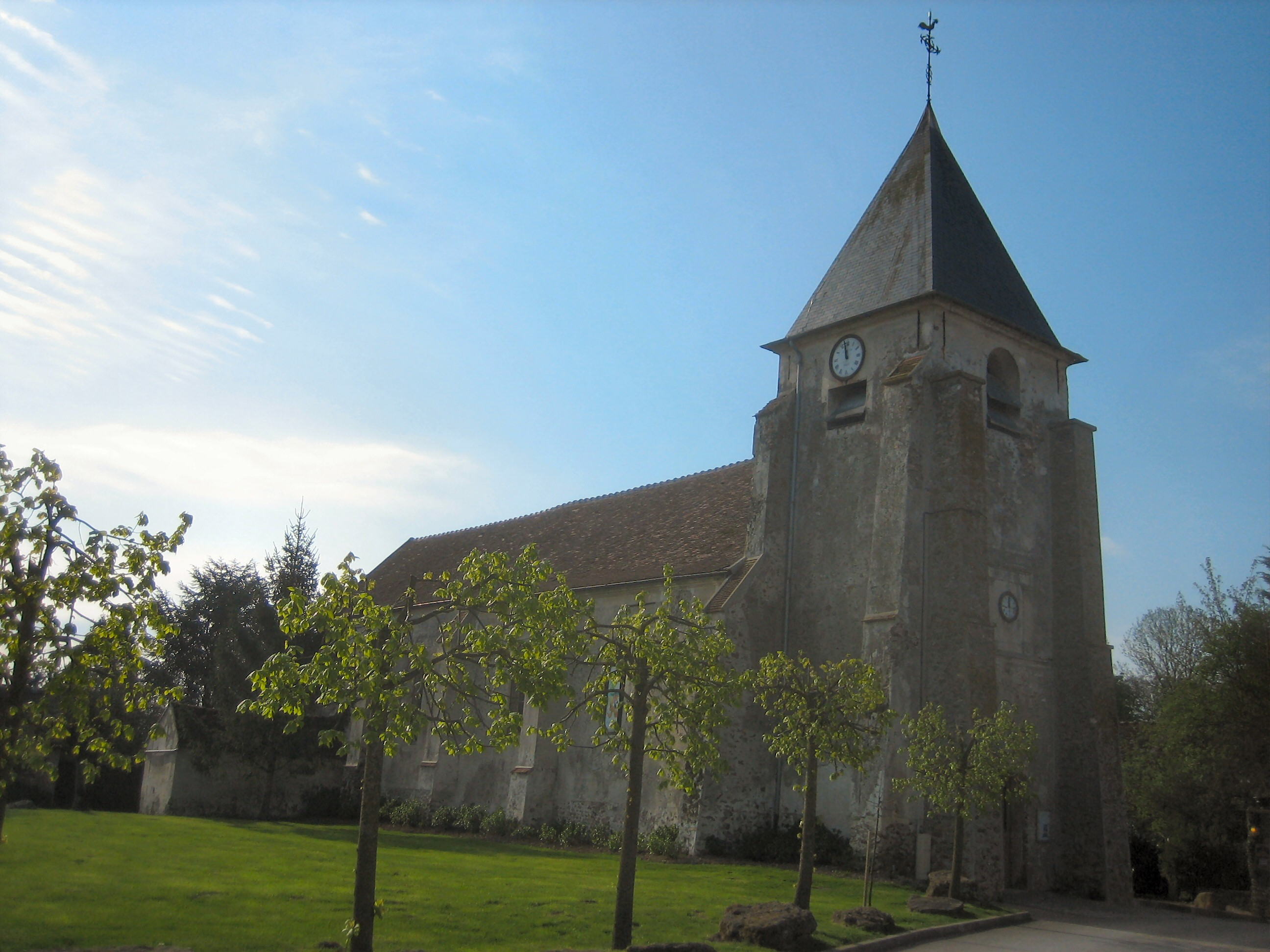 Our Lady of Assumption church in Sancy (Seine-et-Marne), France.